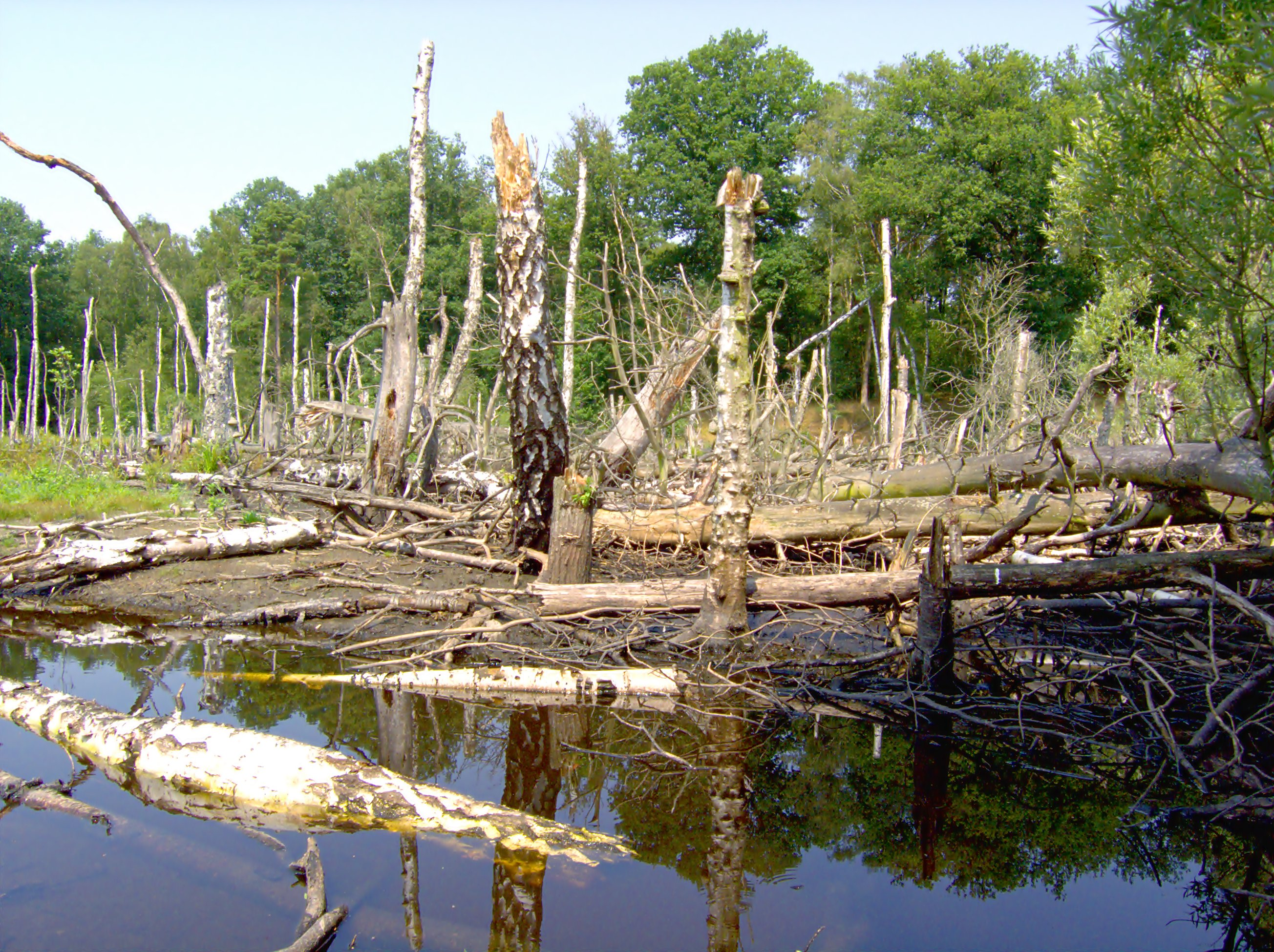 Swamp with birches. Location: Münster, NRW, Germany